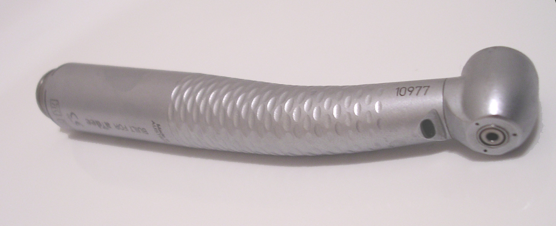 Dental handpiece. Taken at the University of Tennessee Dental College in Memphis.